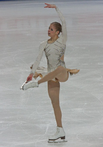 Carolina Kostner (ITA) performs an upright spin variation as part of her first combination spin during her free skating program at the 2009 European Figure Skating Championships. She placed first in this segment of the competition and second overall.